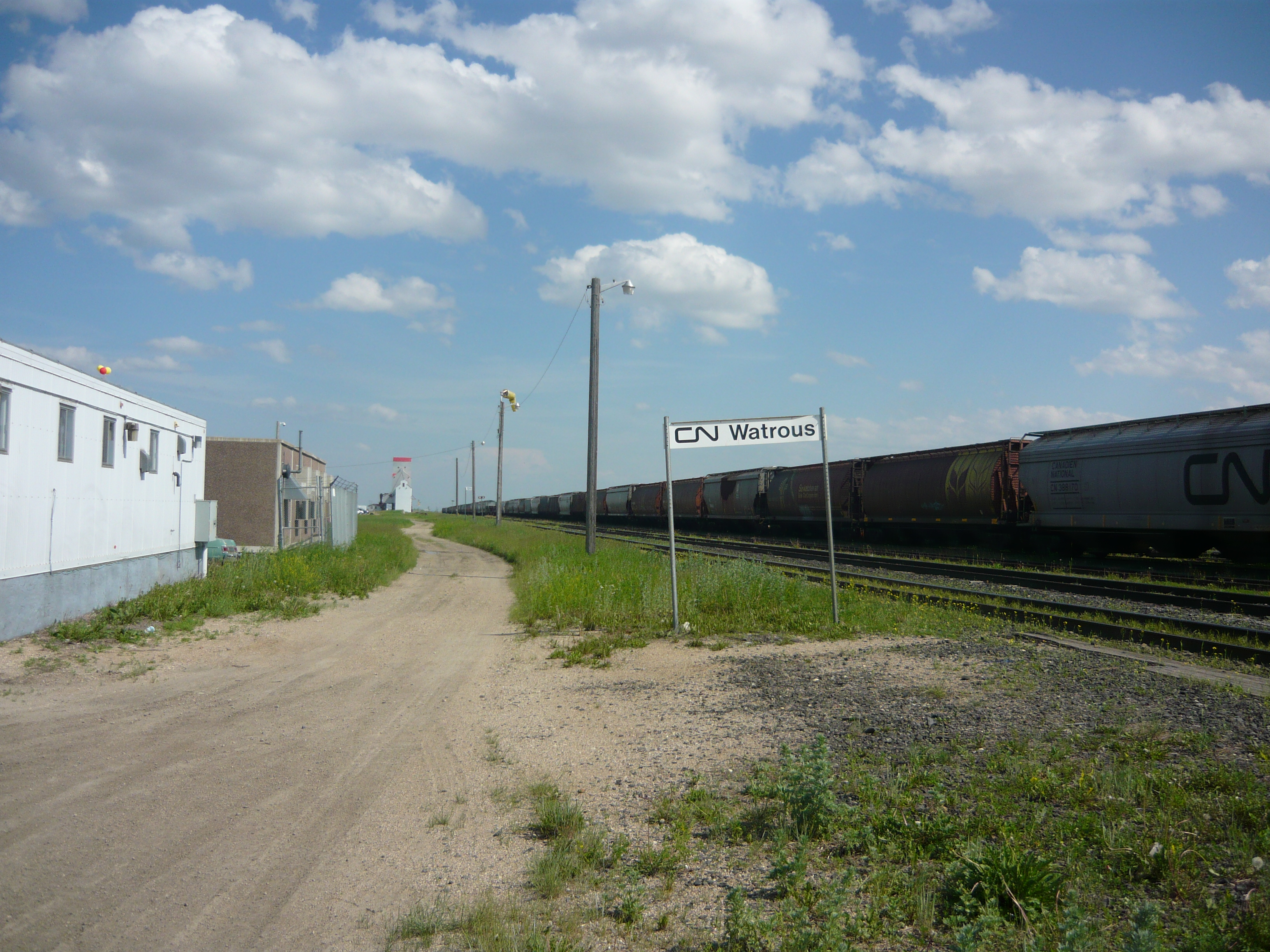 Flag stop ("train station" without the station) at Watrous, Saskatchewan, Canada. As of 2010 when the photo was taken, this place was served by VIA Rail Canada passenger trains.